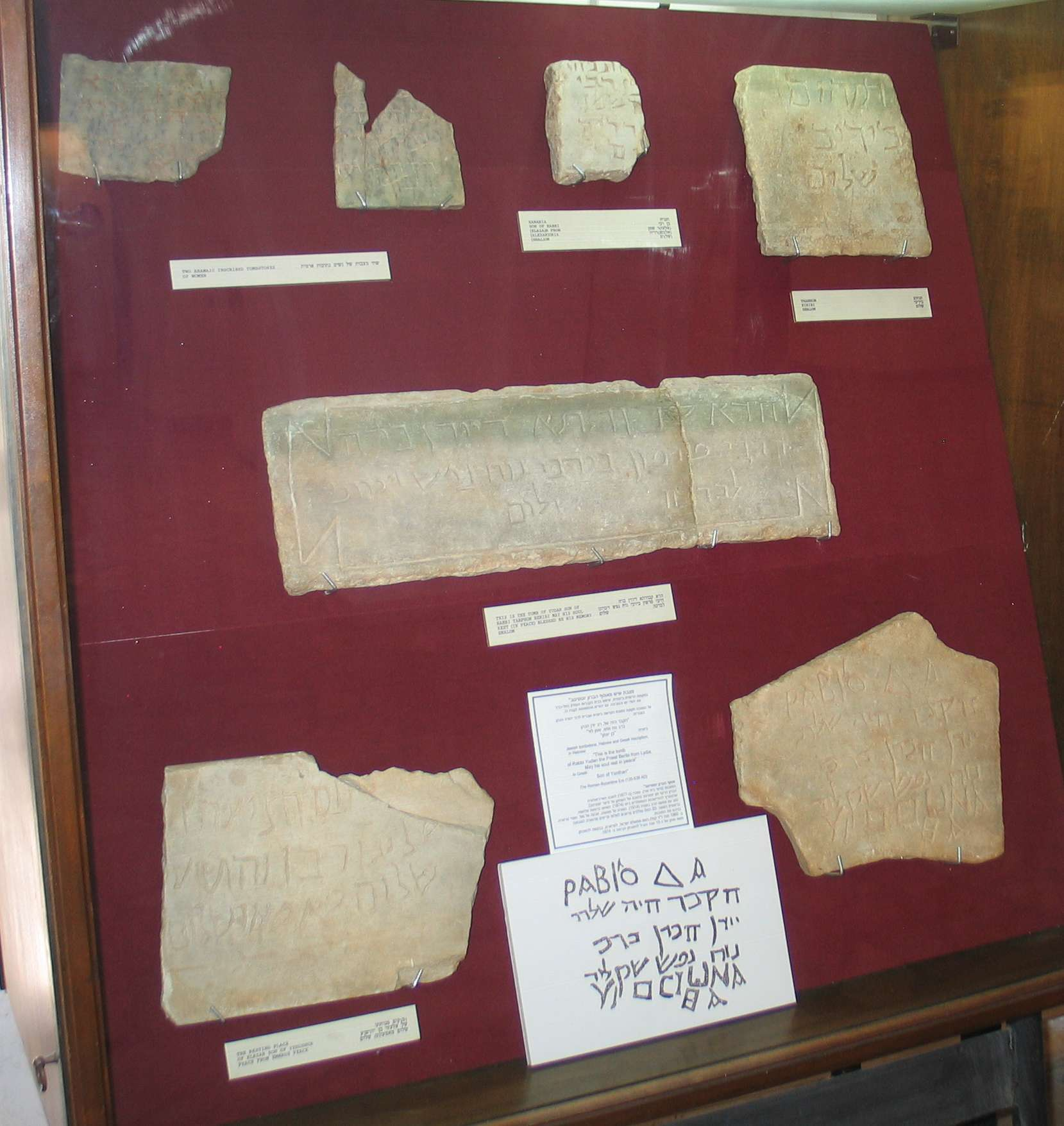 Tombstones from baron Ustinov's collection, Jaffa museum, Jaffa, Israel.